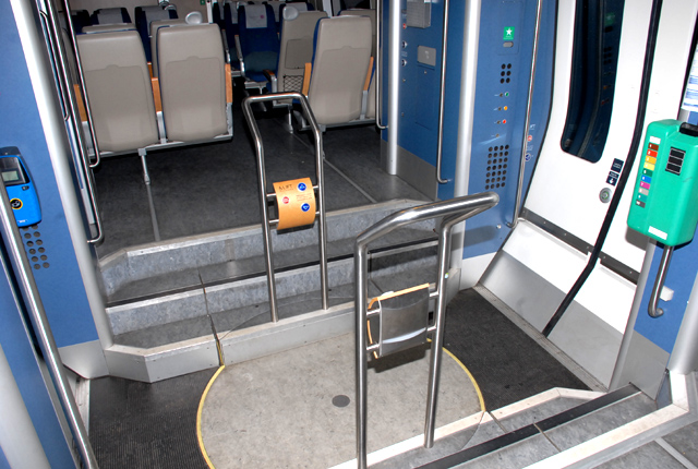 Wheelchair lift Swedish train the series of Regina. Here is the elevator in the lowest position at the height of the balcony.